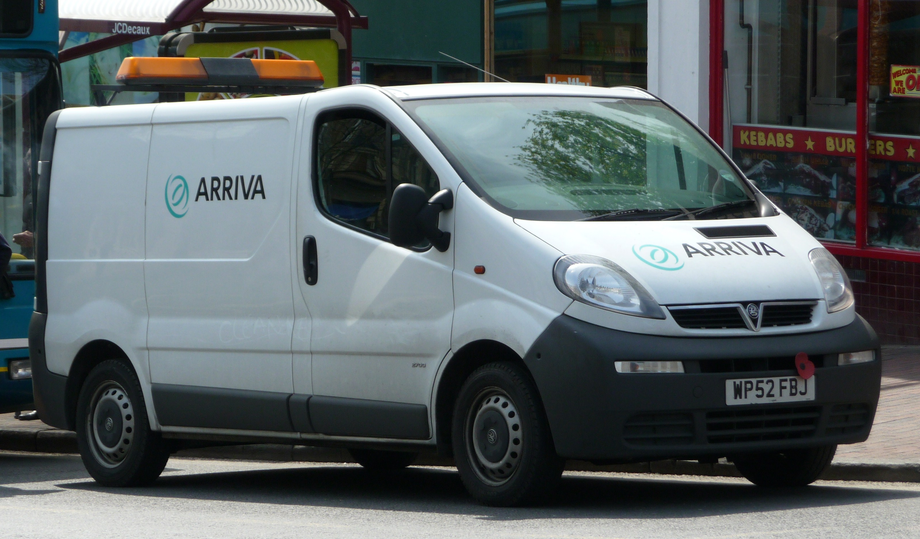 Arriva Kent & Sussex WP52 FBJ, a Vauxhall Vivaro van, in Mount Pleasant Road, Tunbridge Wells, assisting DAF SB220/Plaxton Prestige 3915 (T915 KKM).